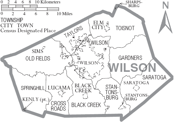 Map of Wilson County, North Carolina, United States with township and municipal boundaries